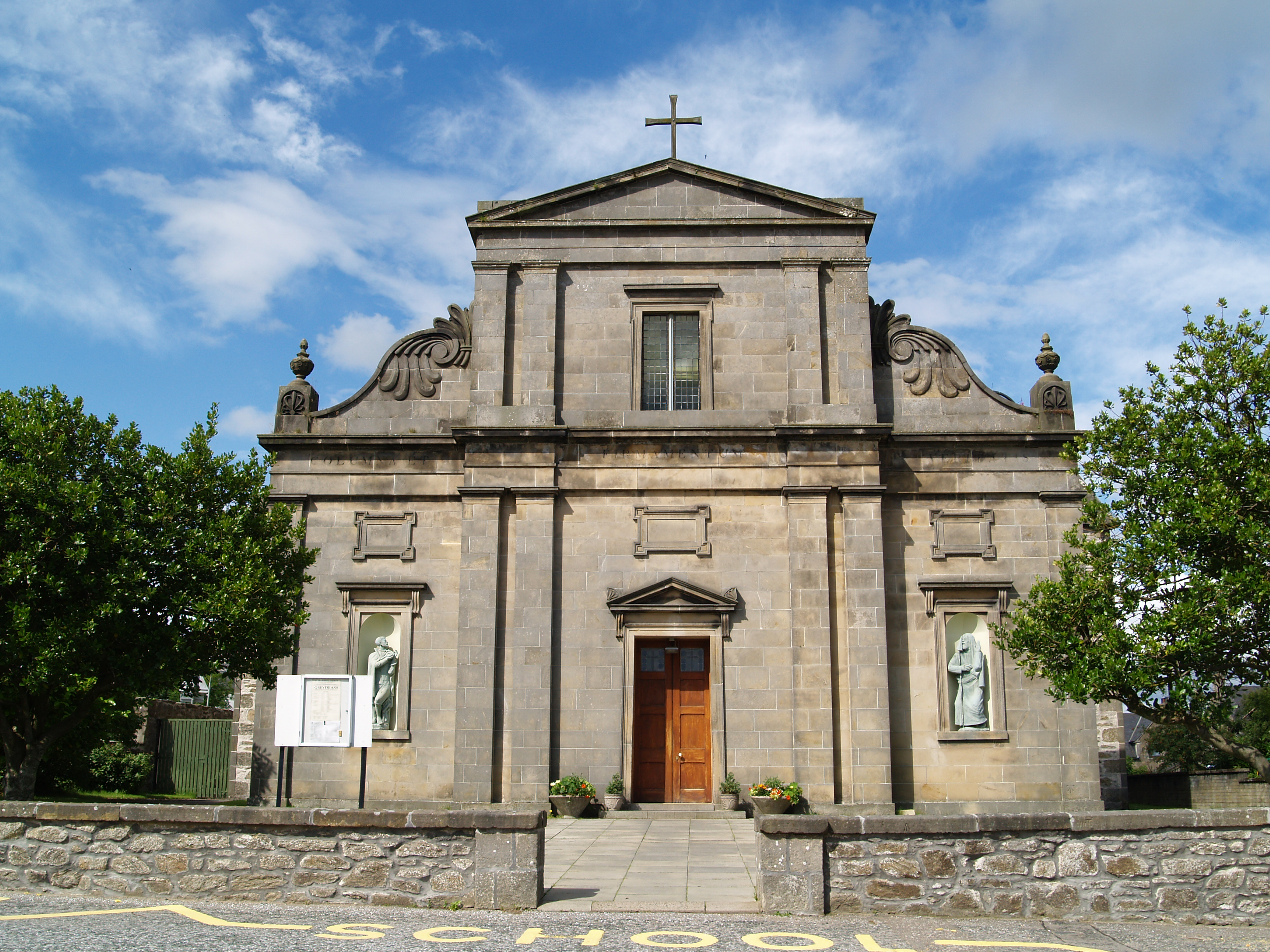 Keith, St. Thomas catholic church